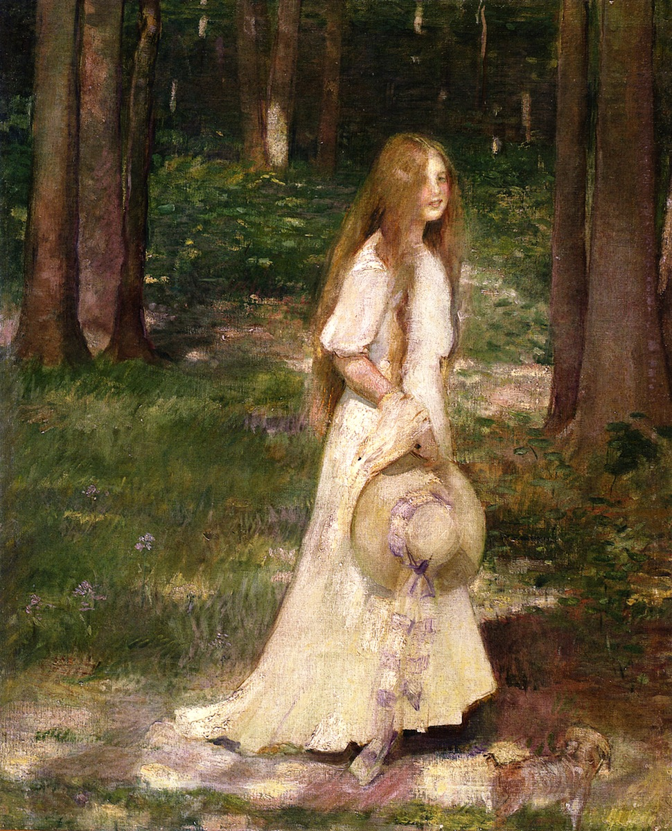 Edith Mitchill Prellwitz, Early Morning Stroll, circa 1900. Oil on canvas, 76.2 cm x 63.5 cm (30 x 25 in.) Private collection.